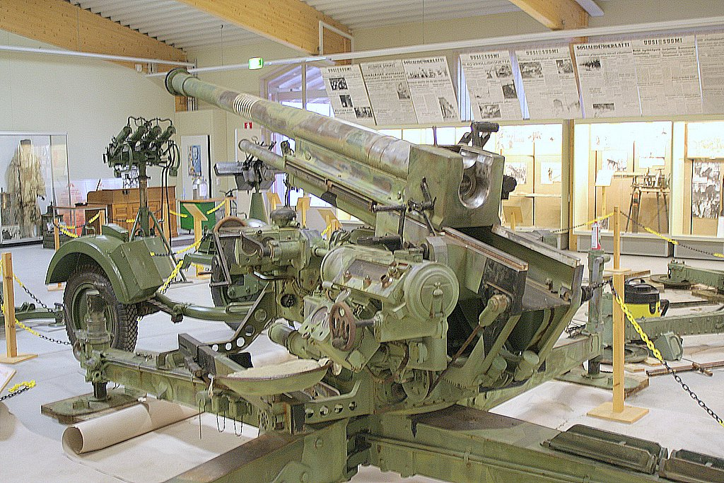 Skoda 75 mm anti-aircraft cannon model 1937 year One of the 20 Czech anti-aircraft cannons acquired by Finland during the WWII in the anti-aircraft museum of Finland (Ilmatorjuntamuseo) in Hyrylä of Tuusula in Finland.